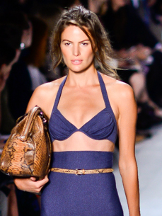 A model walks the runway at the Michael Kors Spring/Summer 2014 show at New York Fashion Week, September 2013.